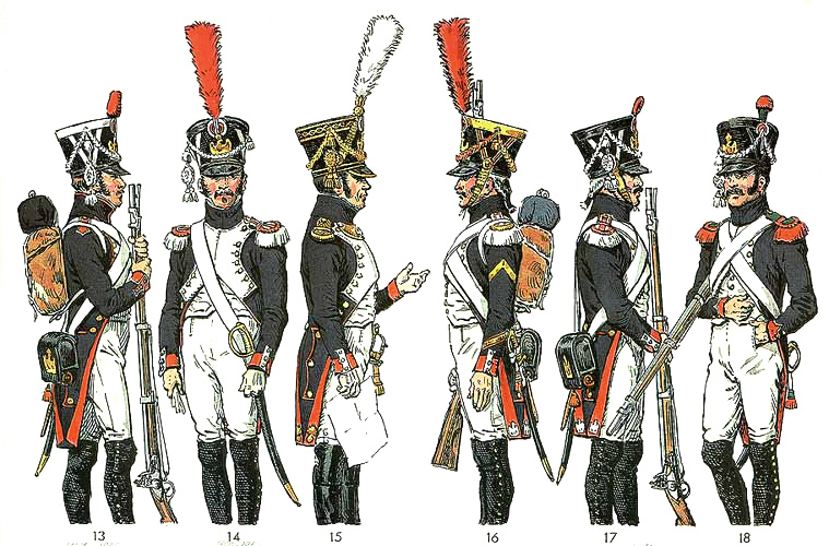 Dress uniforms of Fusilier-Chasseurs and Fusilier-Grenadiers of the Middle Guard. (from Knötel, Uniformenkunde)